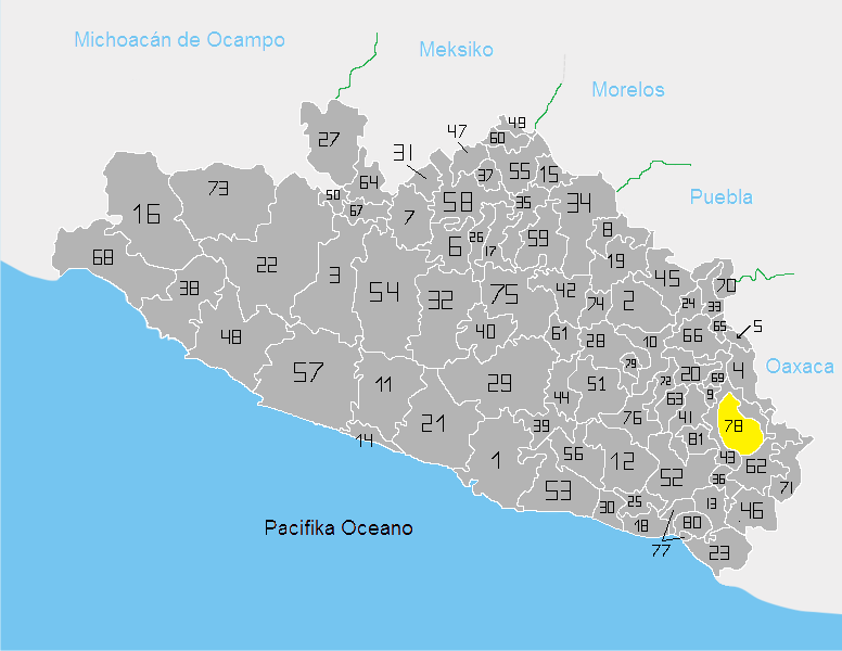 locator map 078 of Guerrero, Mexico